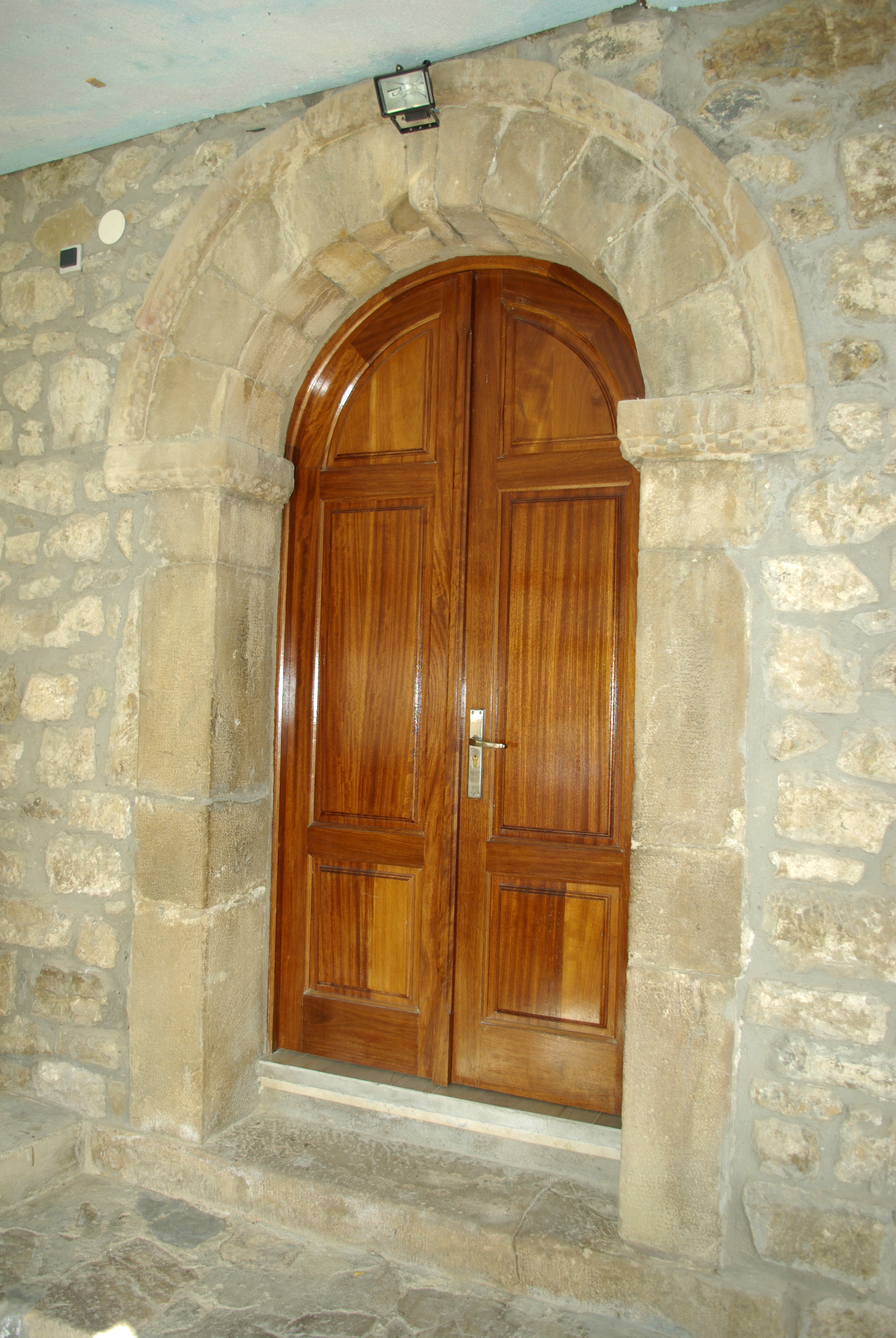 Door of Siero de la Reina parish church, Boca de Huérgano (León, Spain).